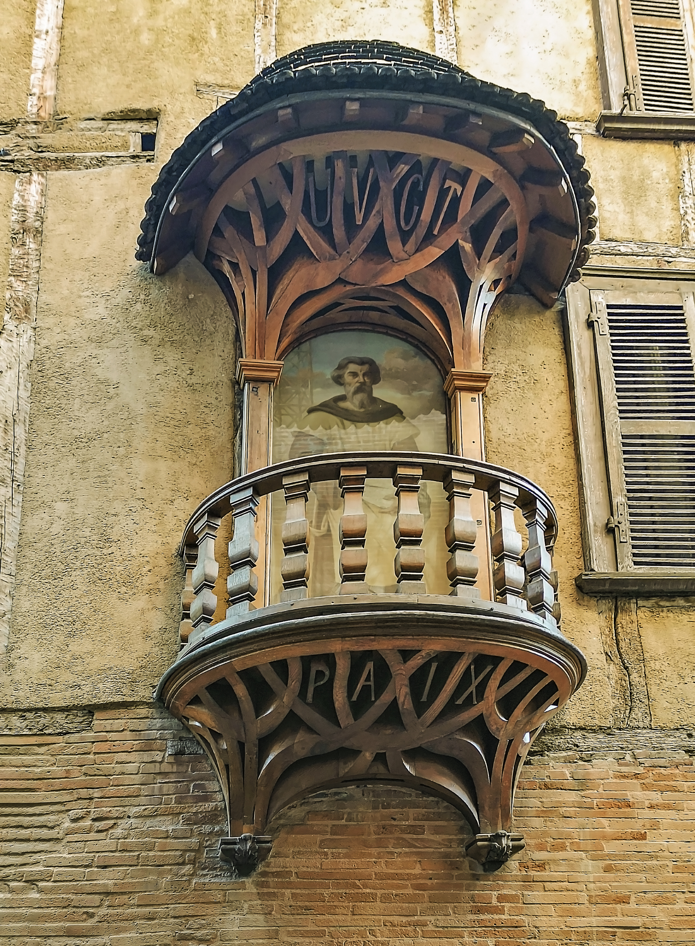 Rue Tripière (Toulouse) - 12-14 Museum of Companionship . 16th century half-timbered facade. On the first floor a balcony with the picture under glass of Father Soubise.